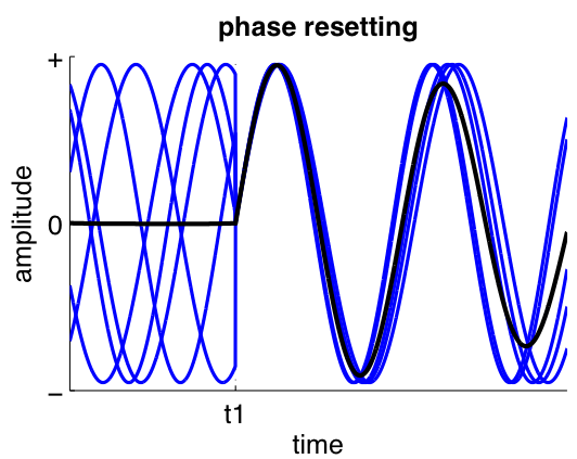 Illustration of a phase resetting in a neural system generating oscillatory activity. In response to some input, the phase of the signals is reset at t1.